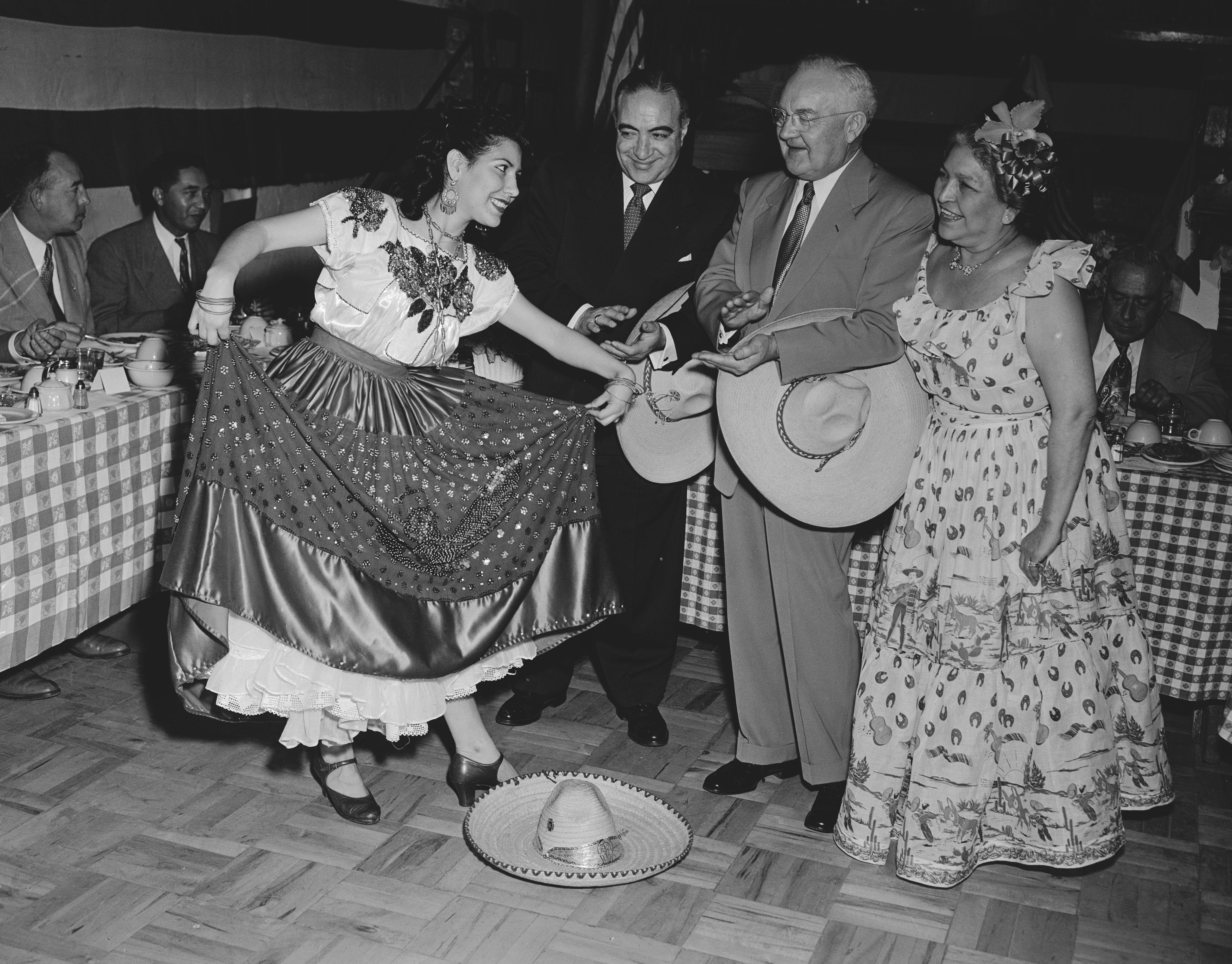 Title: Mayor Fletcher Bowron celebrates Cinco de Mayo Publication Los Angeles Daily News Publication date ca. 1952 Notes Los Angeles Mayor Fletcher Bowron celebrates Cinco de Mayo with Consuelo de Bonzo and Mexican American dancers on Olvera street. *Photographed left to right are: Velia Valle, Salvadas Dukhart, Mayor Bowron, and Consuelo de Bonzo. Consuelo de Bonzo and her husband established the first Los Angeles Mexican restaurant in 1924, La Golondrina café (Los Angeles Plaza Historic District) near the present day City Hall.